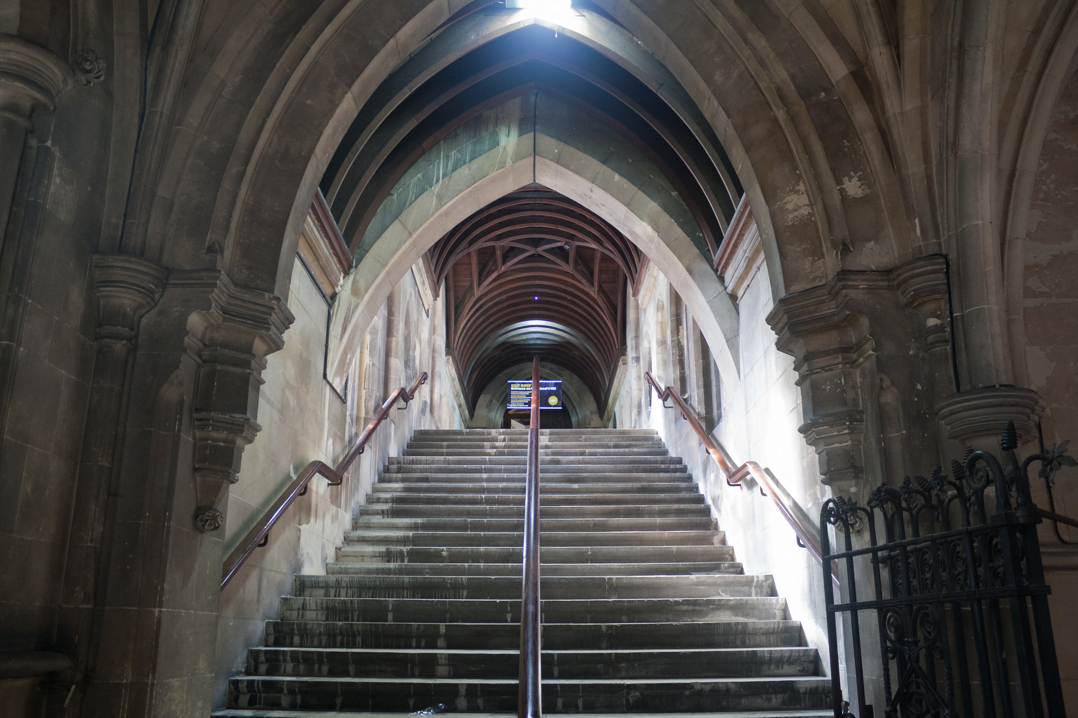 Stairs leading to the passage to the Synod Hall (now Dublinia).